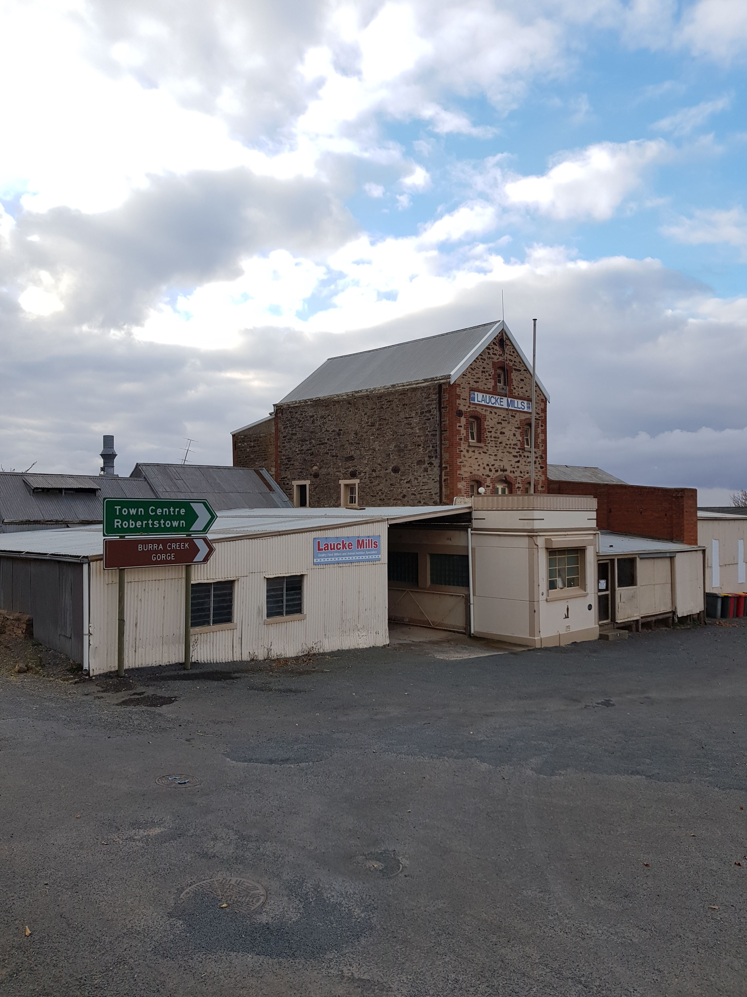 Laucke's Mill Building, originally owned by Edwin Davey.